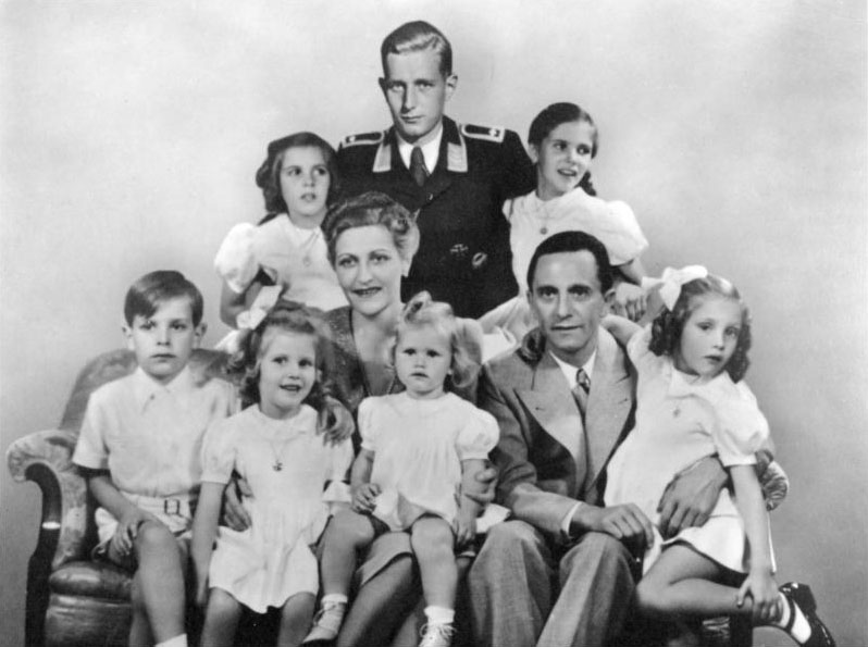 Goebbels Family portrait: in the centre are Magda Goebbels and Joseph Goebbels, with their six children Helga, Hildegard, Helmut, Hedwig, Holdine and Heidrun. Behind is Harald Quandt in the uniform of a Flight Sergeant of the Air Force [retouched postcard].